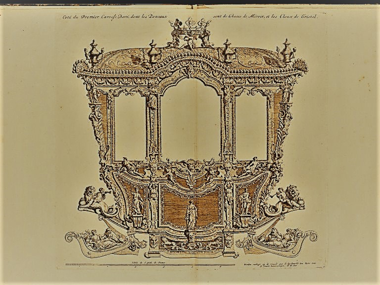 Carroza del duque de osuna en 1712